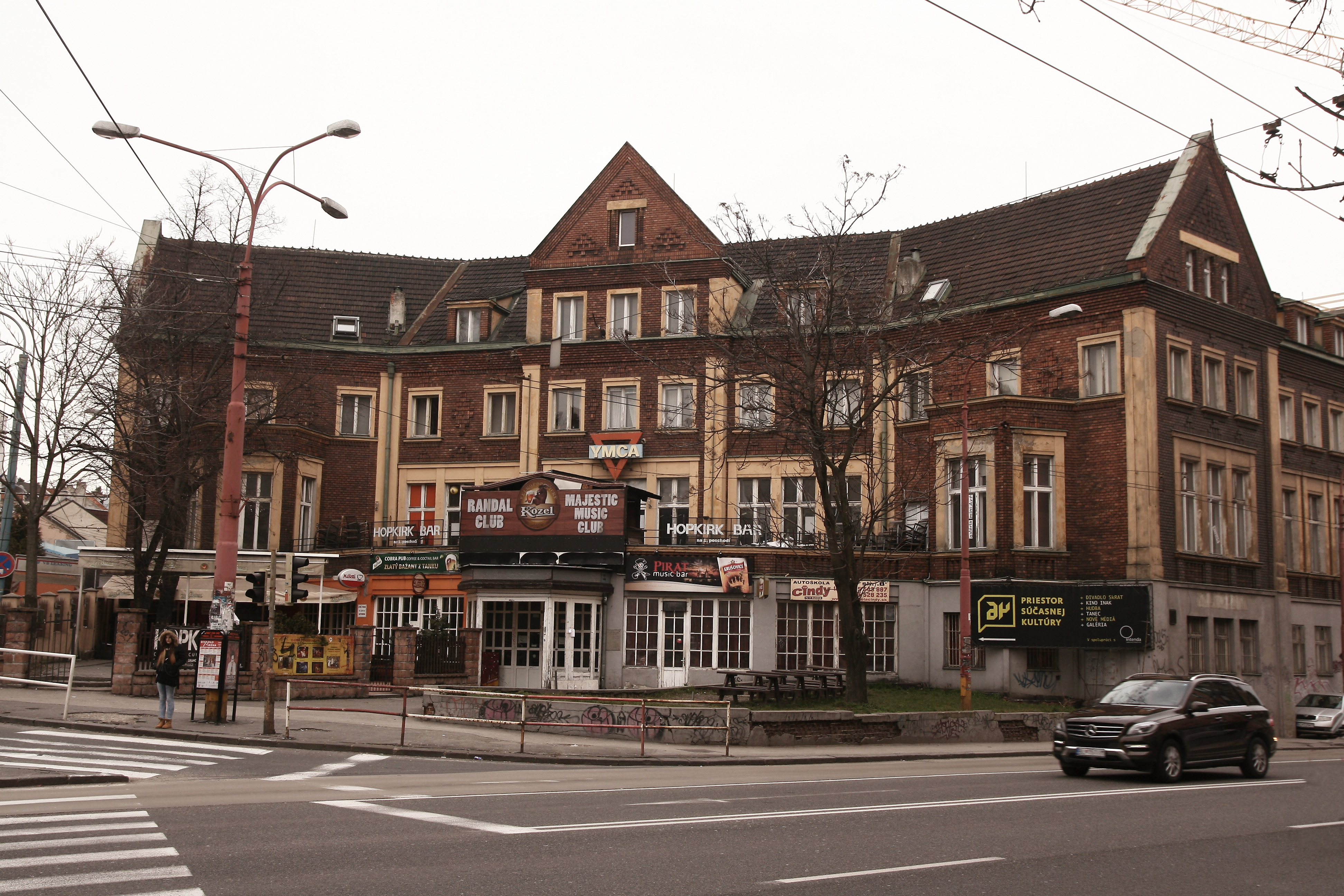 YMCA building in Bratislava, Slovakia. Art deco building from 1923, architect Alois Balán.